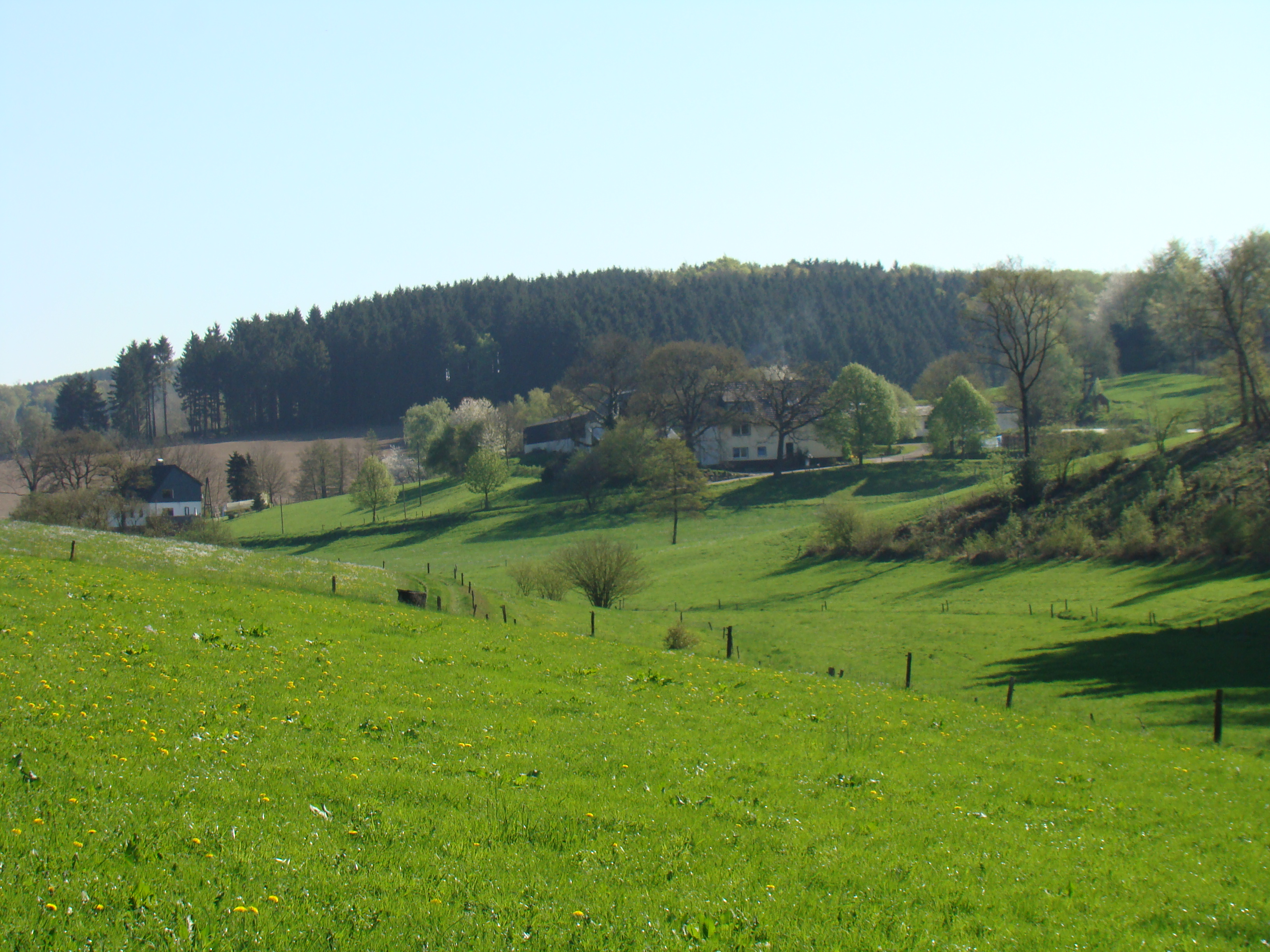 Schwelmersiepen